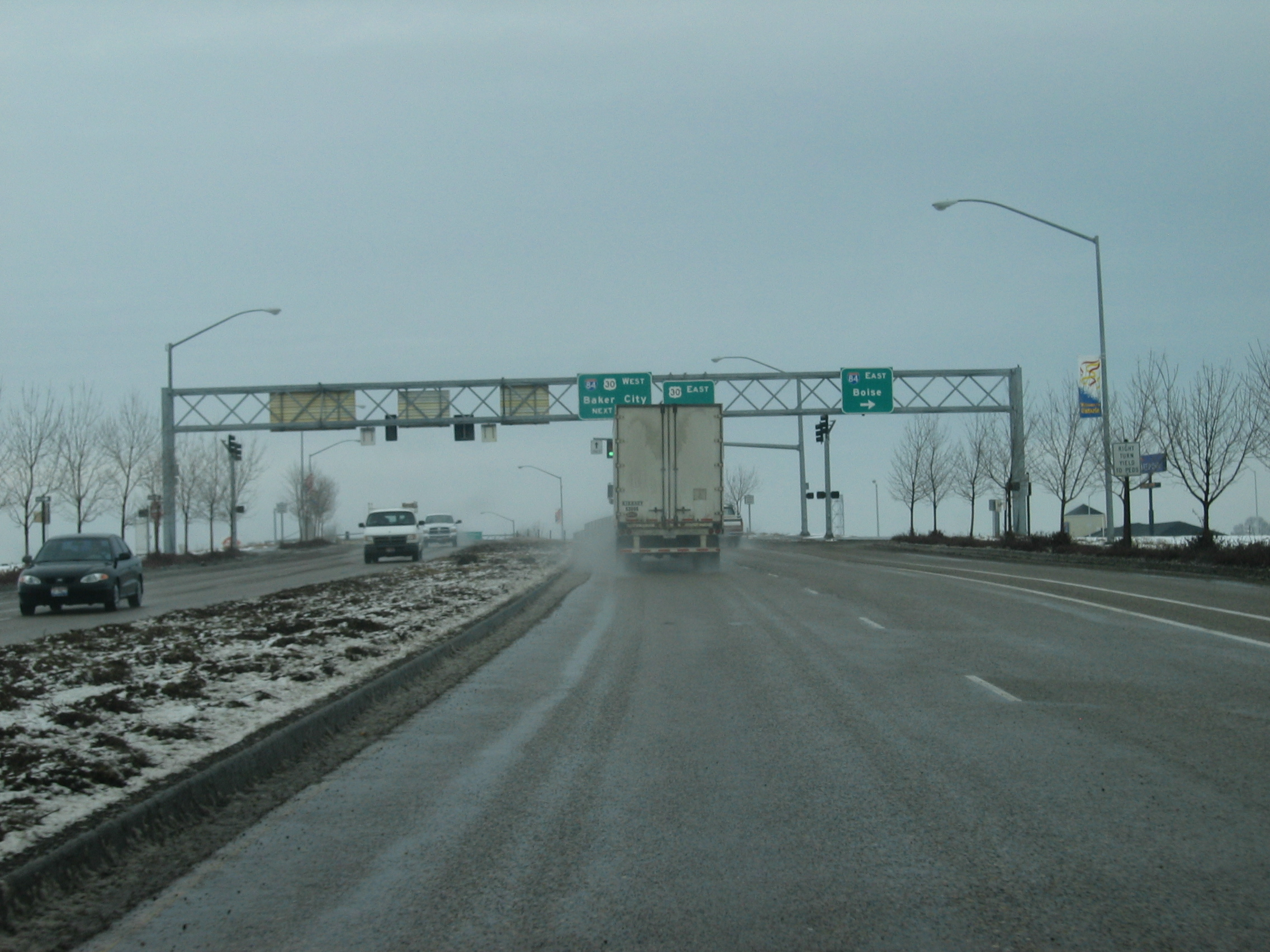 Freeway entrance onto Interstate 84, Ontario, Oregon.